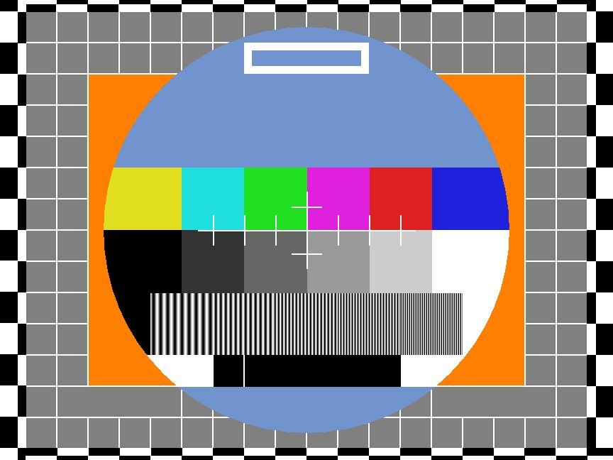 This is the Colour Testcard of RTVE(Radiotelevisión Española)Form 1980s Till 1996 & 2000 but still in Teledeporte